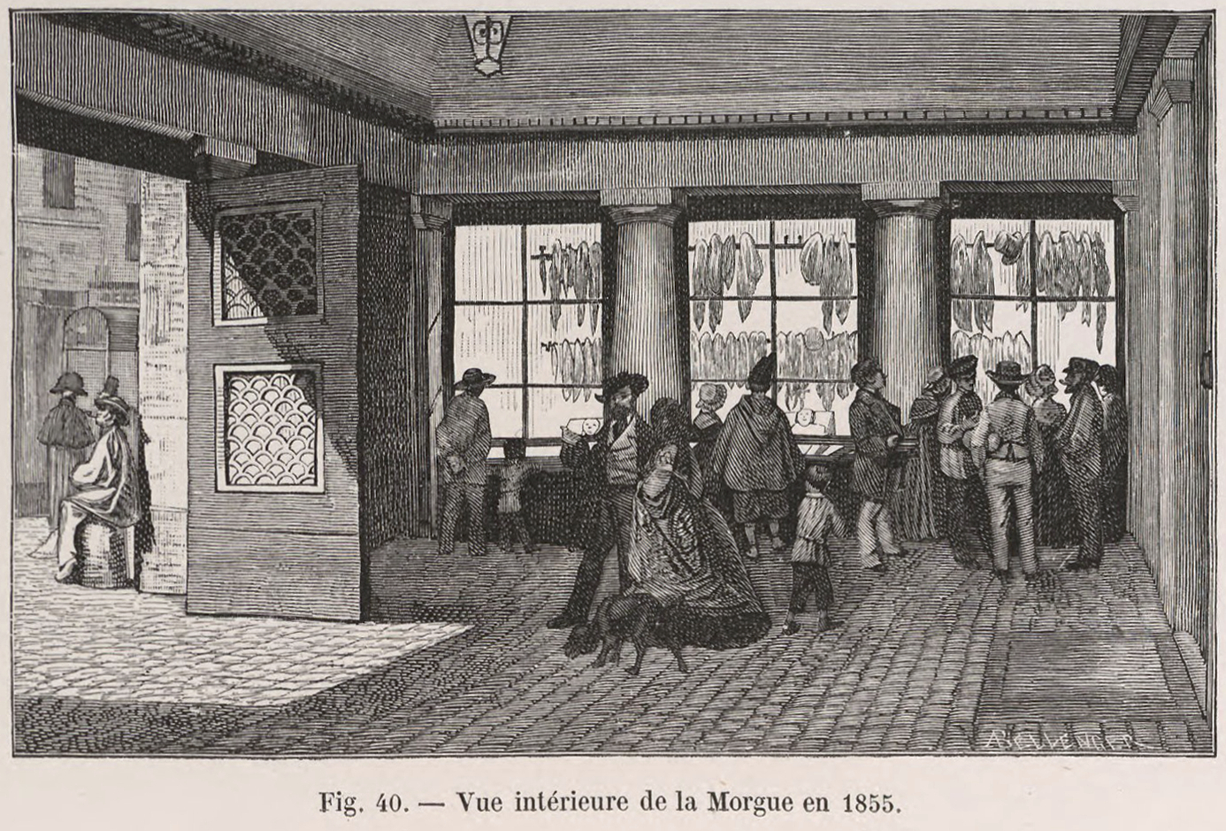 A glimpse of the Paris Morgue's interior. The left wall of the entrance hall consisted of a row of windows through which guests could see the "salle d'exposition" where cadavers were laid out on iron tables, their clothes hung from thick iron hooks over their heads. The use of these hooks is a reminder of the building's previous incarnation as a butcher's shop.